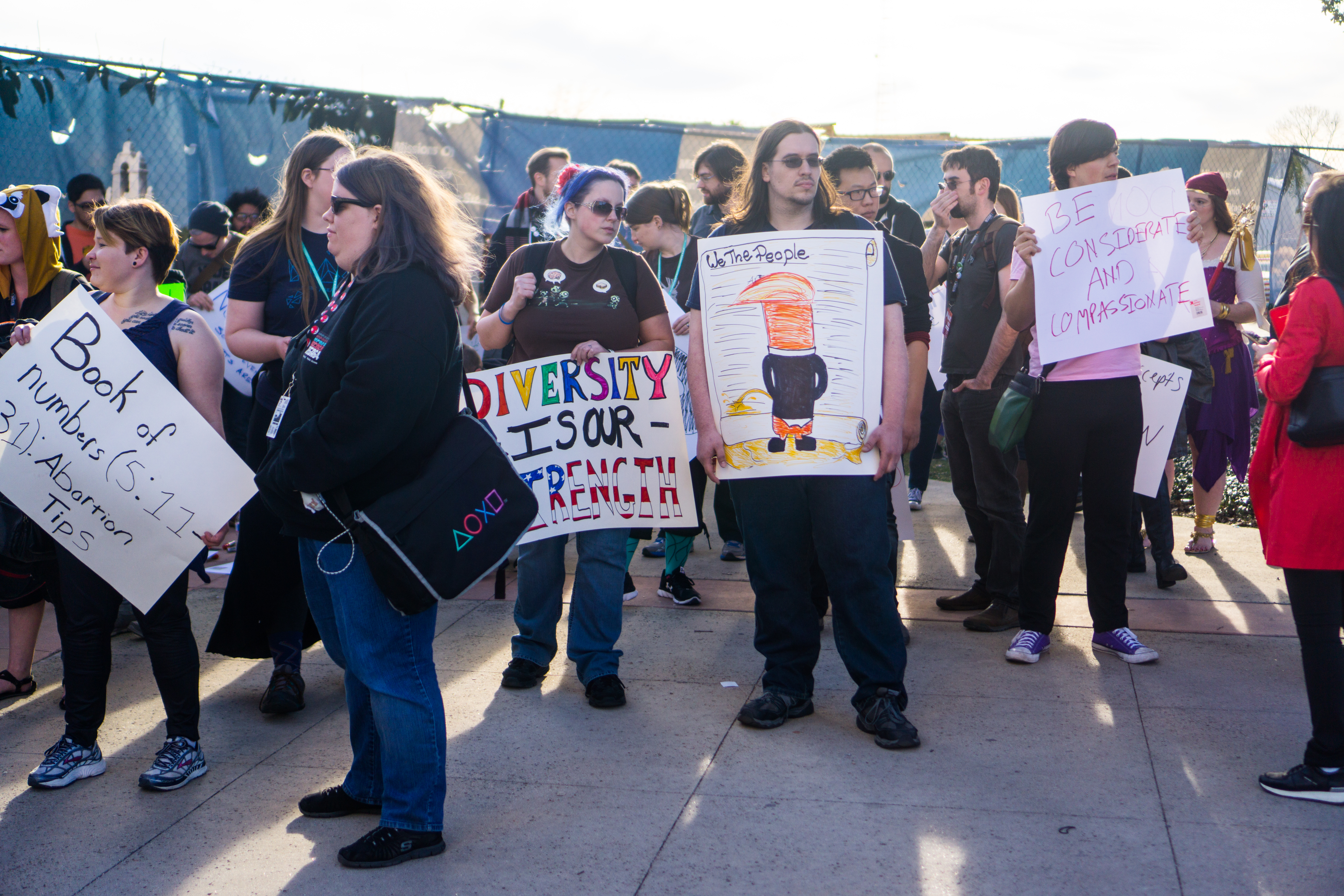 Protest from Pax South attendees following President Trump's executive order to decrease access to healthcare and a travel ban on 7 Muslim-majority nations.